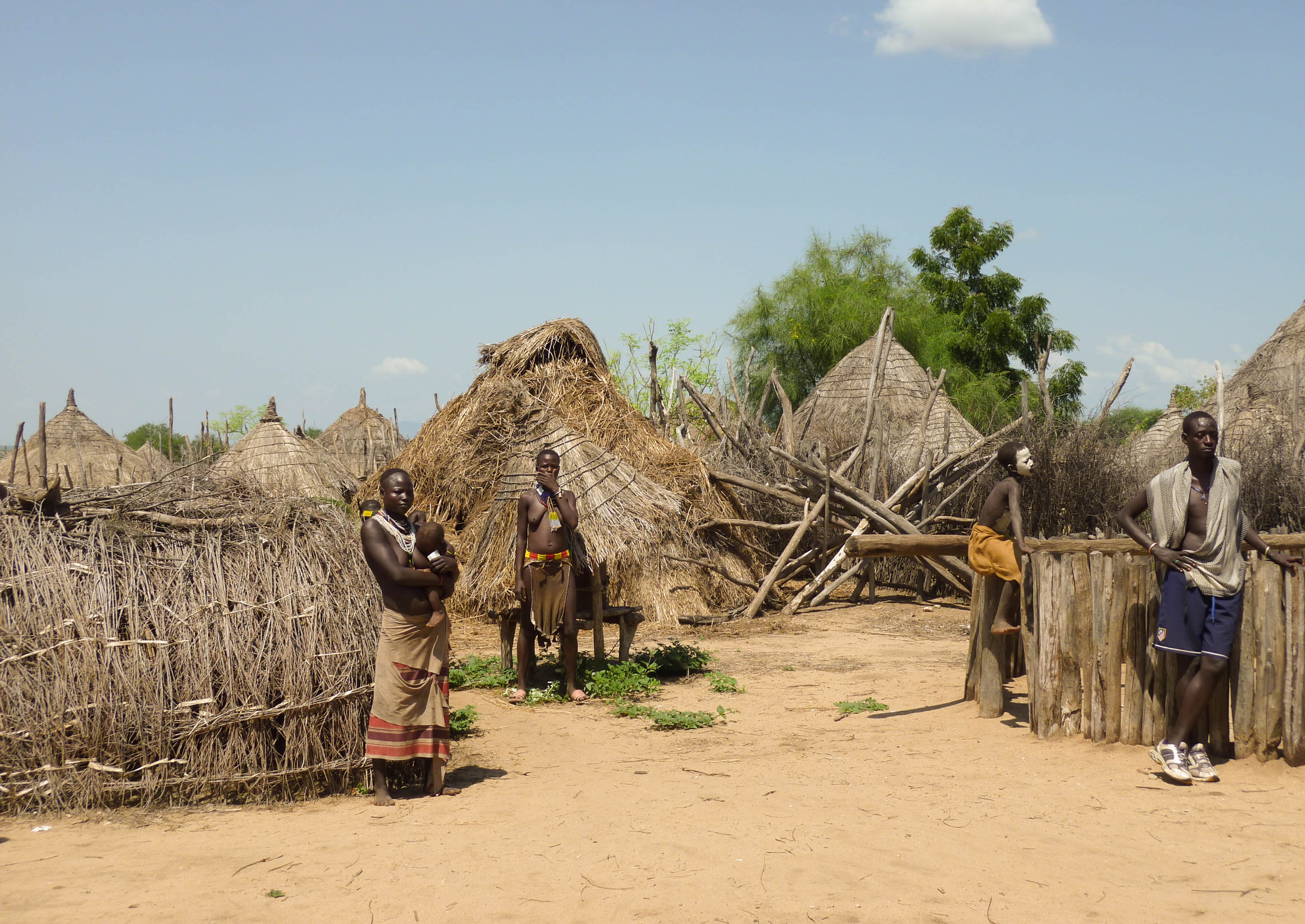 Karo village of Doose in Omo Valley, Ethiopia